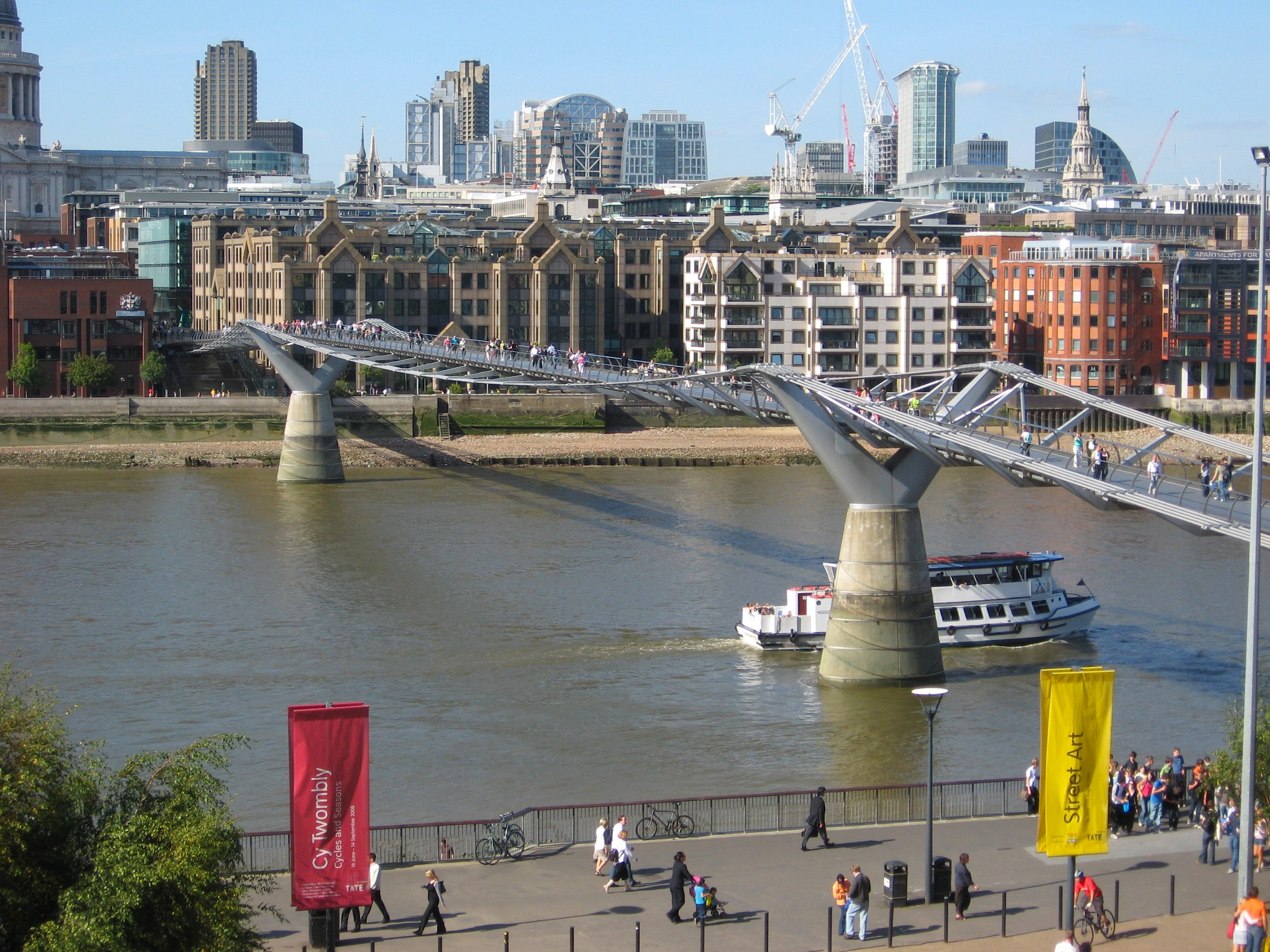 sw view, Millennium Bridge, London, upper floor Tate Modern, showing banner for Twombly show